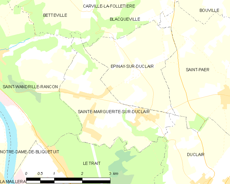 Map of French municipality Sainte-Marguerite-sur-Duclair